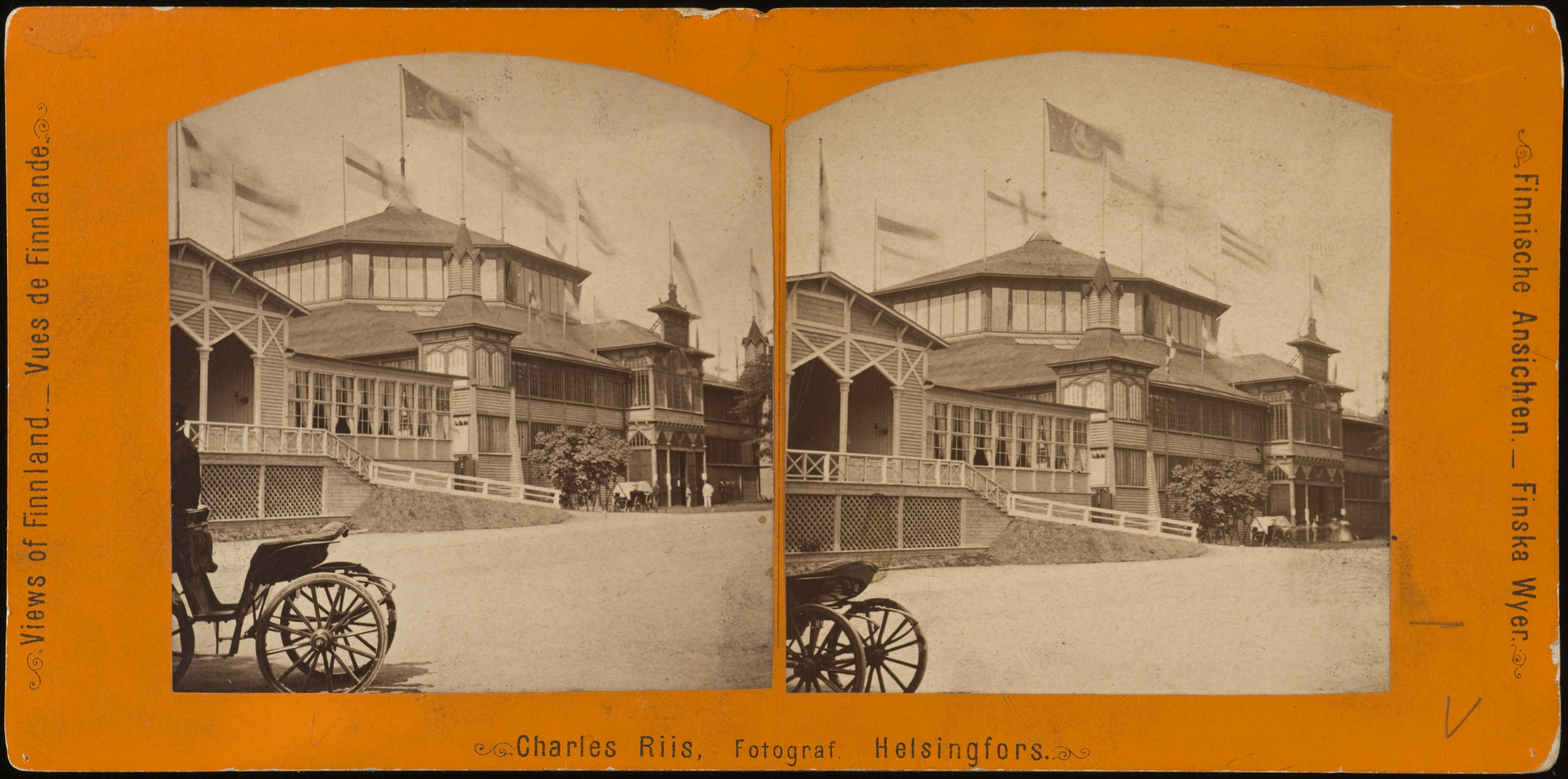 Suomen ensimmäinen yleinen taide- ja teollisuusnäyttely vuonna 1876 Kaivopuistossa, Theodor Höijerin suunnittelema näyttelyrakennus Kaivohuoneen pohjoispuolella. Vedos repronegatiivi diginegatiivi, paperi pahvi lasi, mv